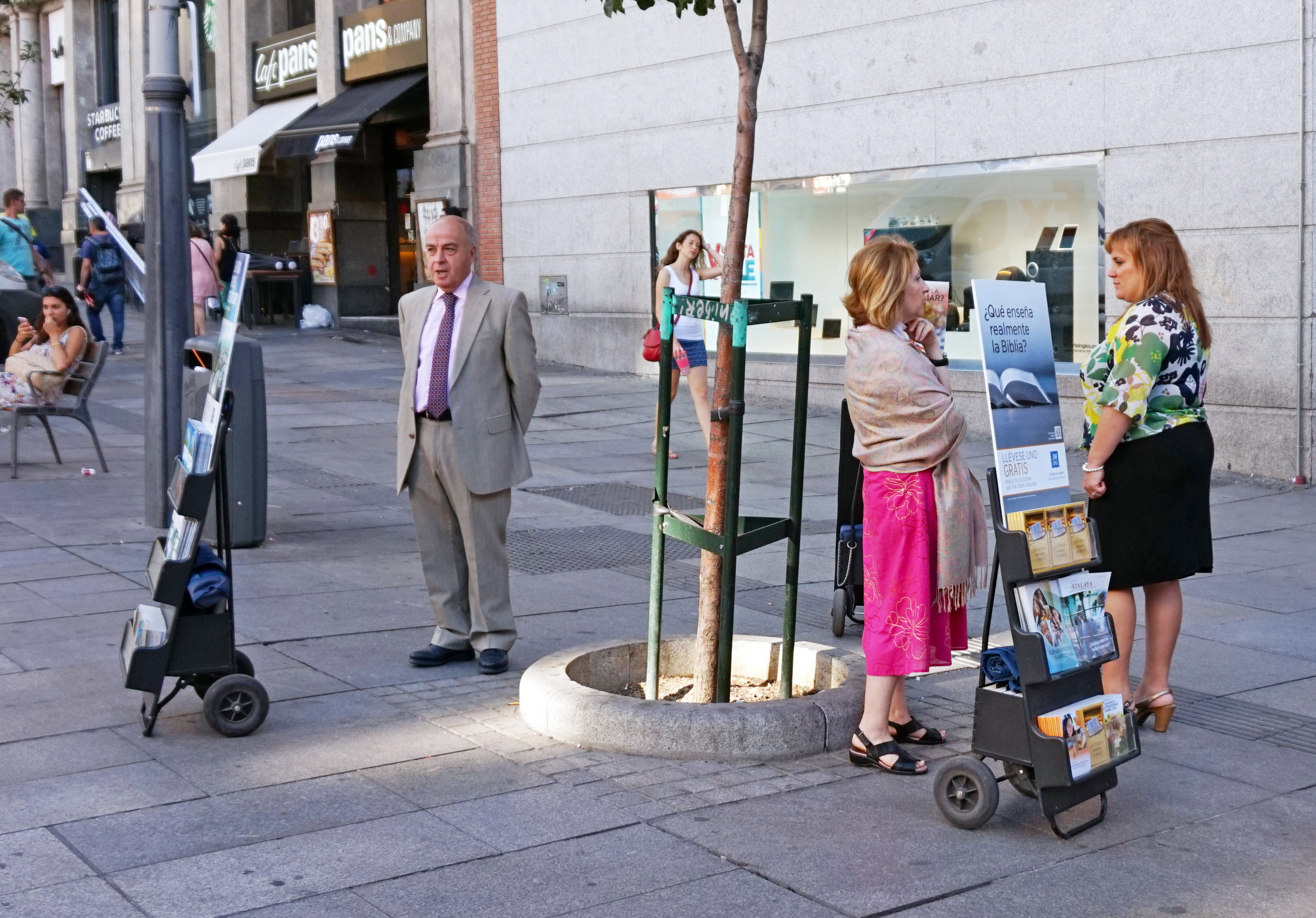 Jehovah's Witnesses literature in Madrid. View on the square Plaza del Callao. This photograph was taken with a Sony Alpha a5000.